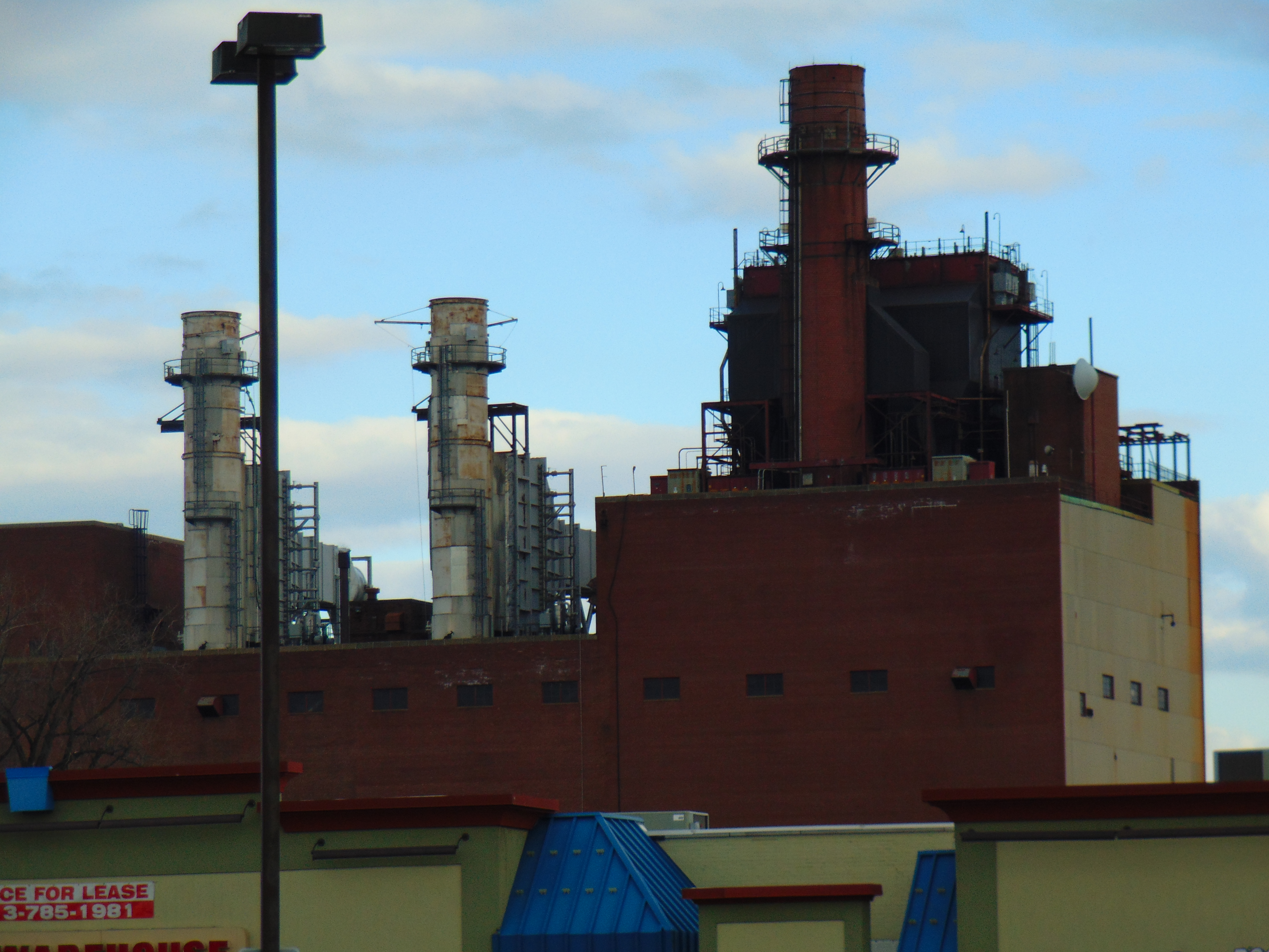 A power plant in West Springfield, Mass.